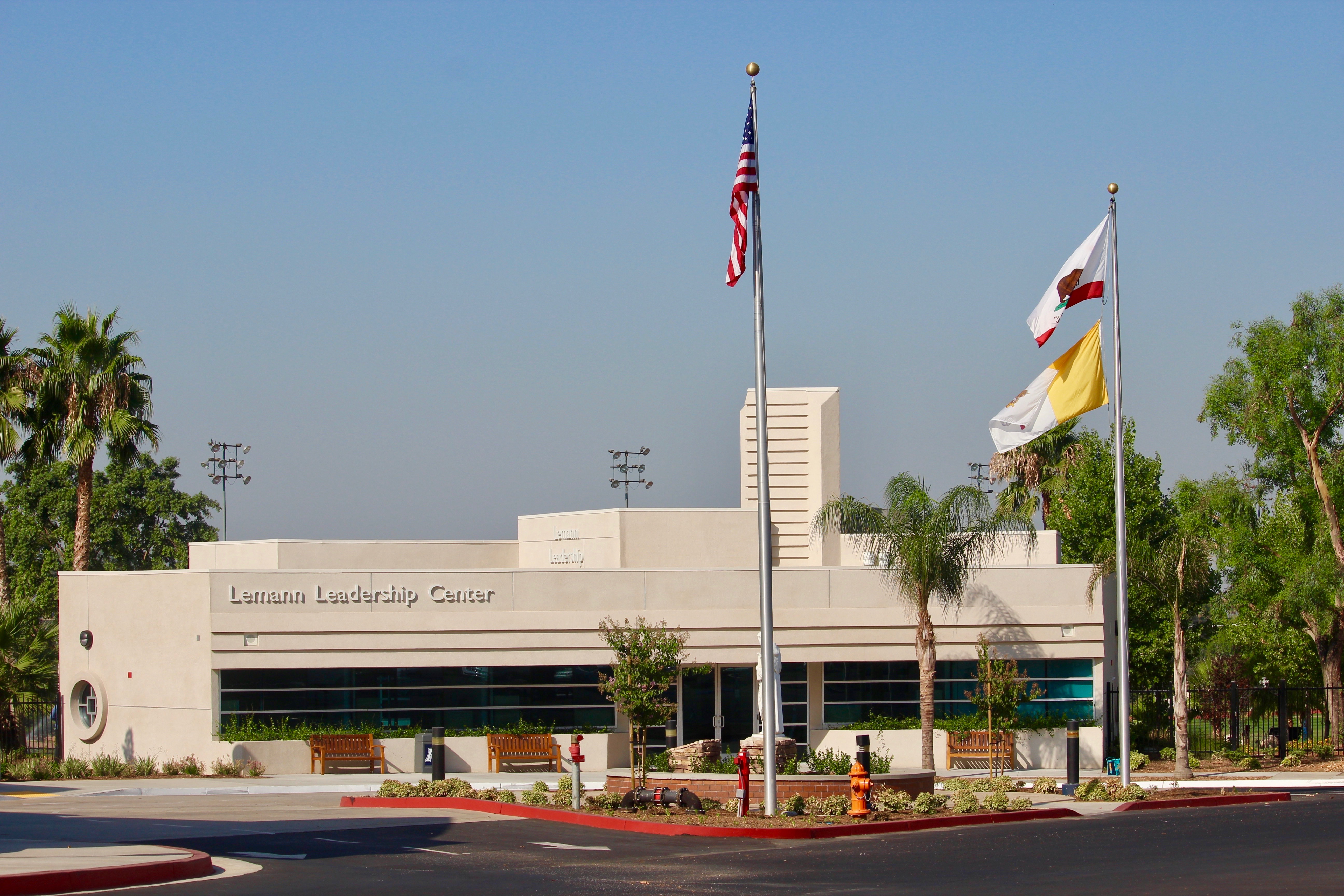 Lemann Center 2019